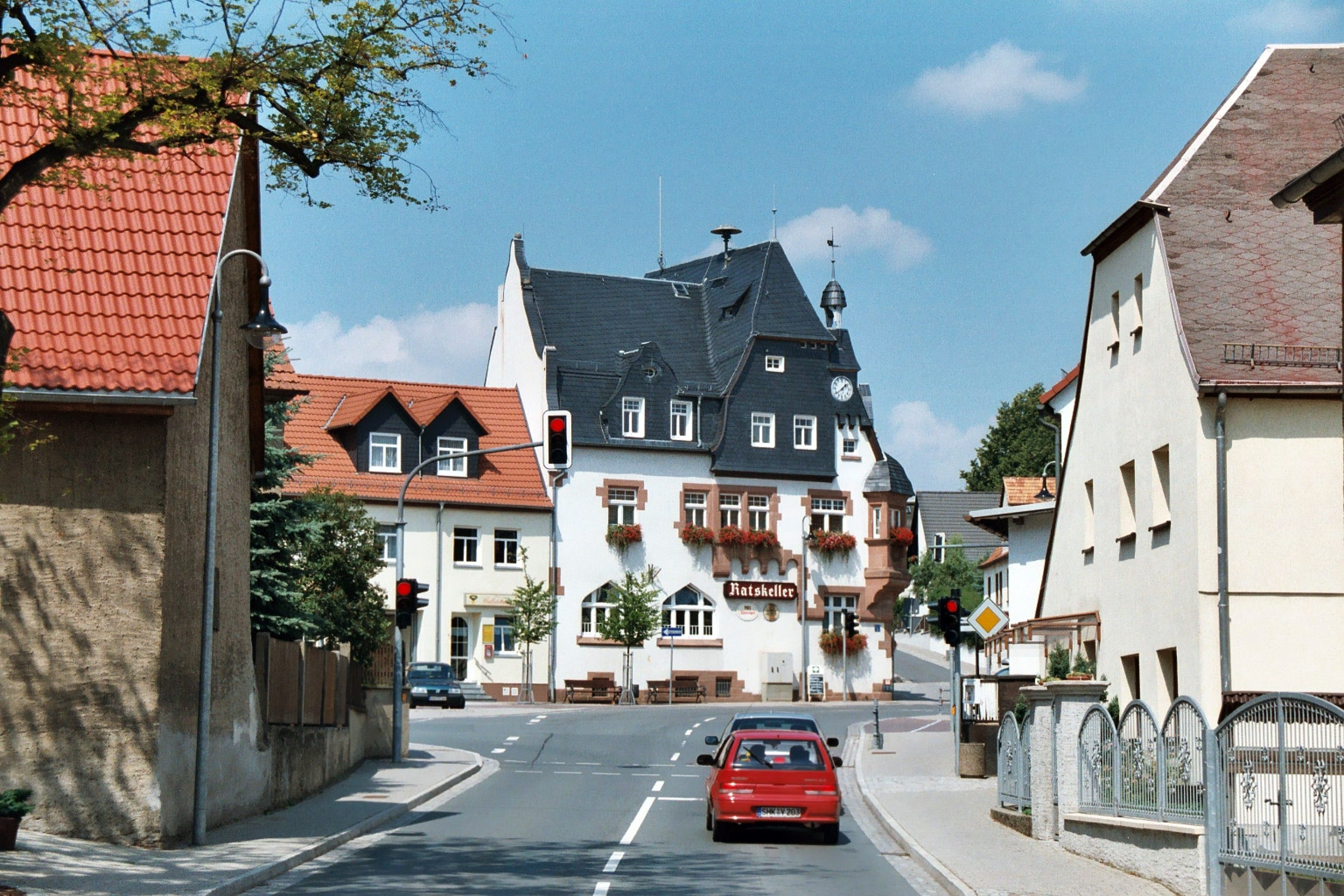 Bad Klosterlausnitz, the town hall